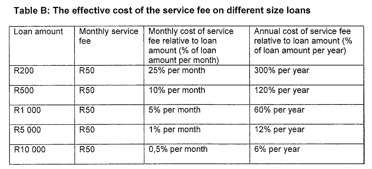 The effect of the flat-rate service fee of R50 per month on different size loans in terms of South African law, shown as a percentage of the loan amount.